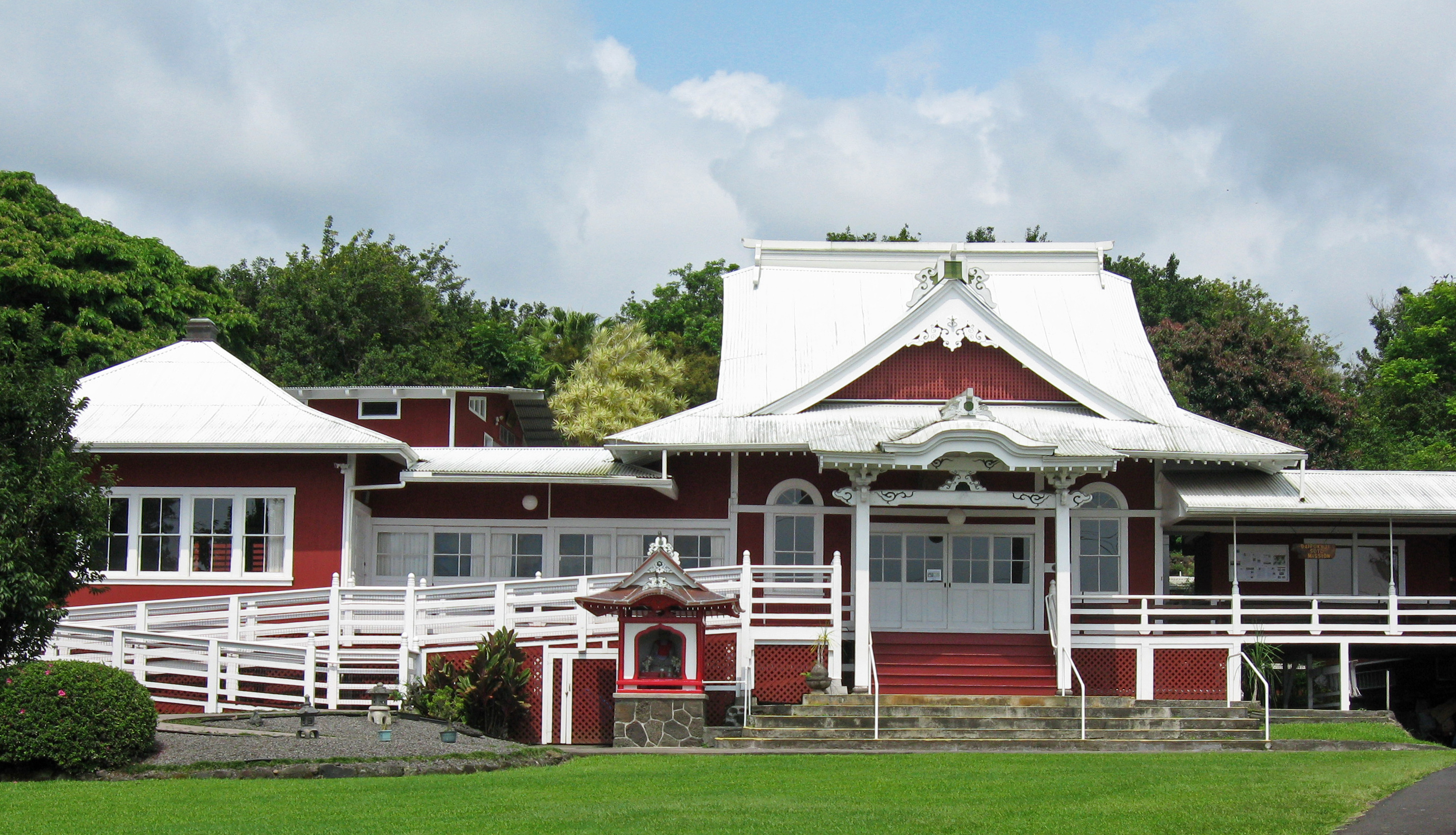 The Daifukuji Sōtō Mission is a Zen Buddhist temple on the island of Hawaiʻi established in 1914 near Honalo. It was added to the National Register of Historic Places on April 21, 1994.